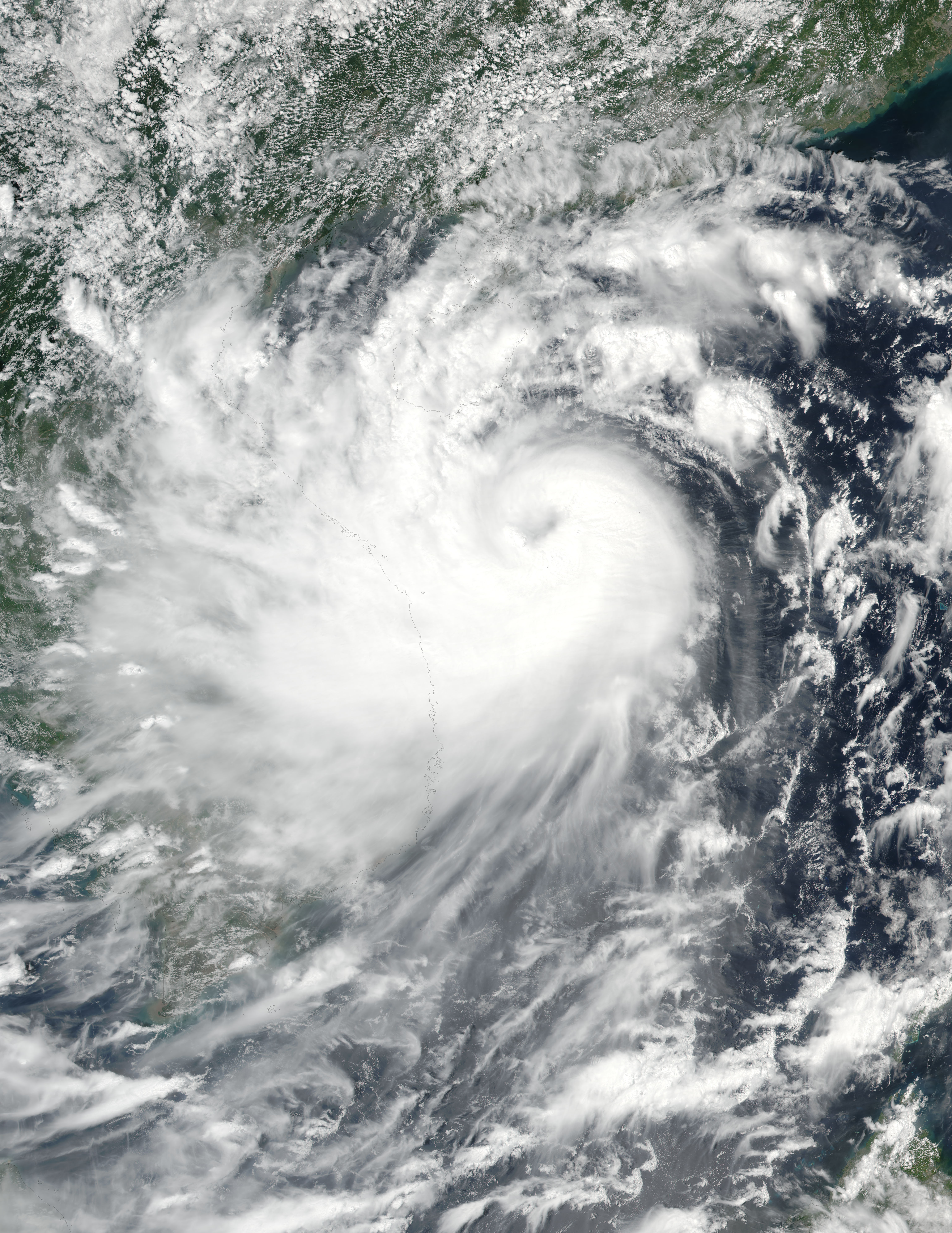 Typhoon Doksuri (21W) approaching Indochina